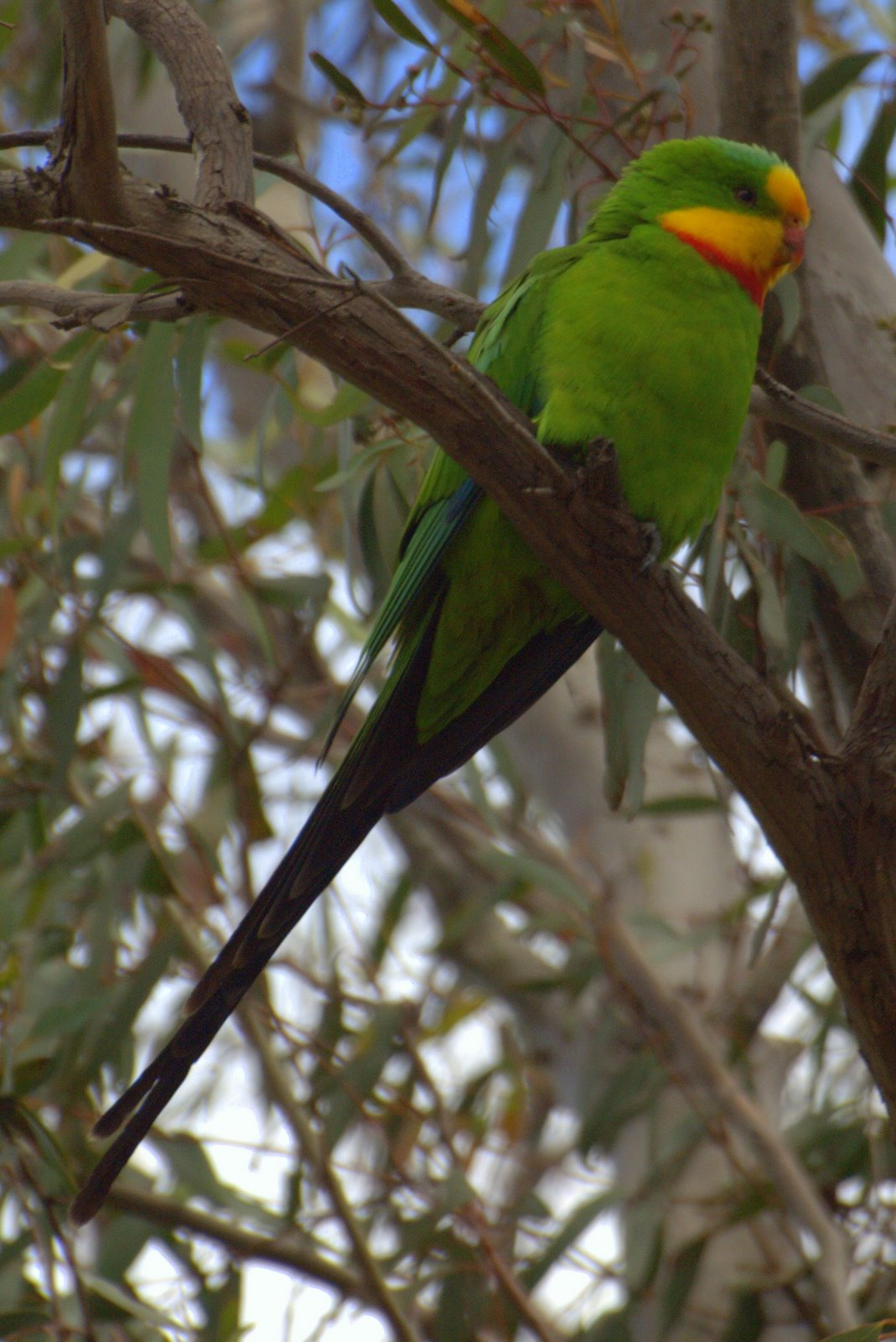 A Superb Parrot (also known as Barraband's Parrot, Barraband's Parakeet) in Canberra, Australia.